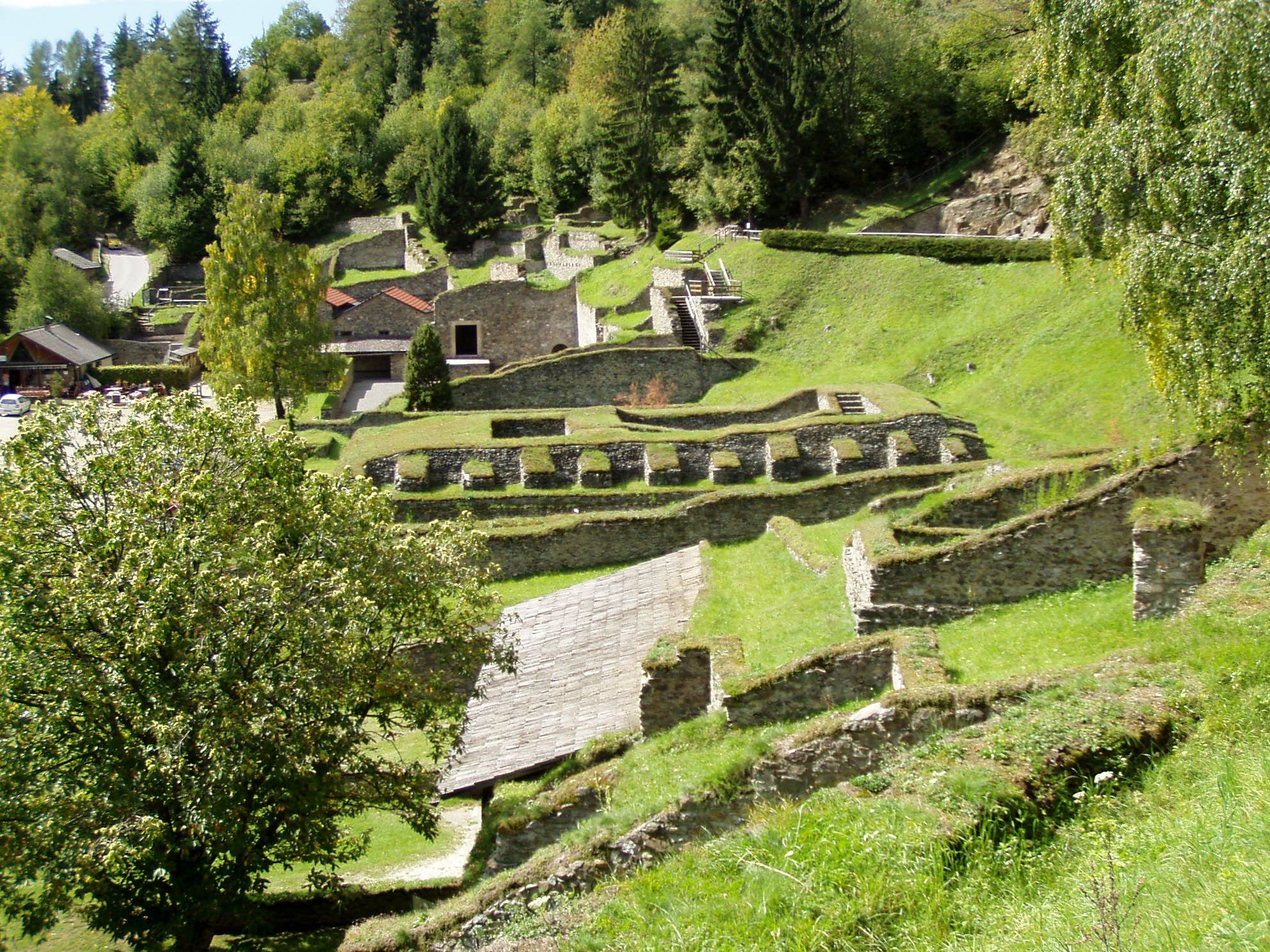 City on the Magdalensberg, overview central part.